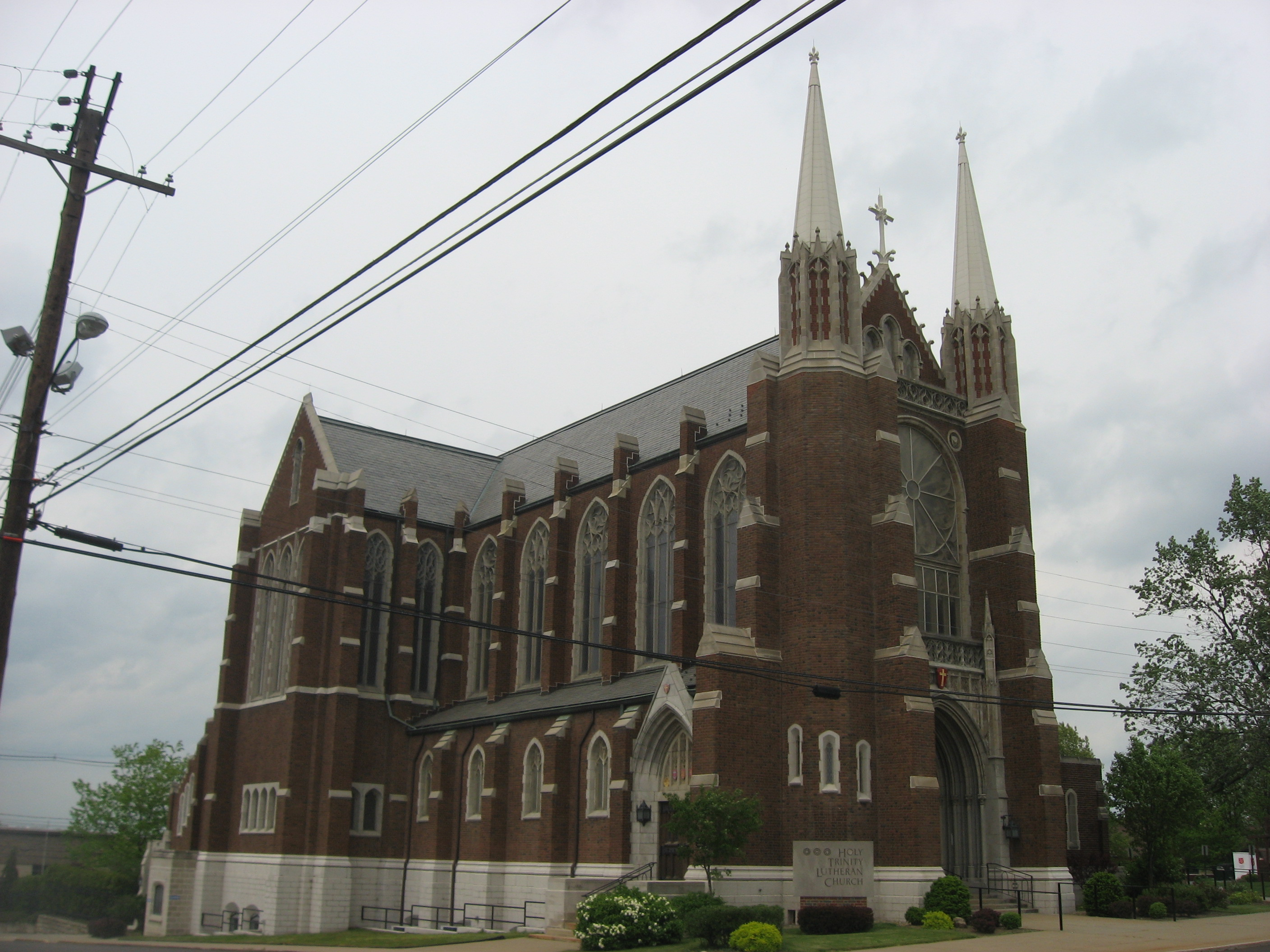 Front and southern side of Holy Trinity Lutheran Church, located at 50 N. Prospect Street in Akron, Ohio, United States. The building was constructed in 1914. Among the congregation's prominent members have been rubber baron Frank Seiberling and minister Franklin Clark Fry.